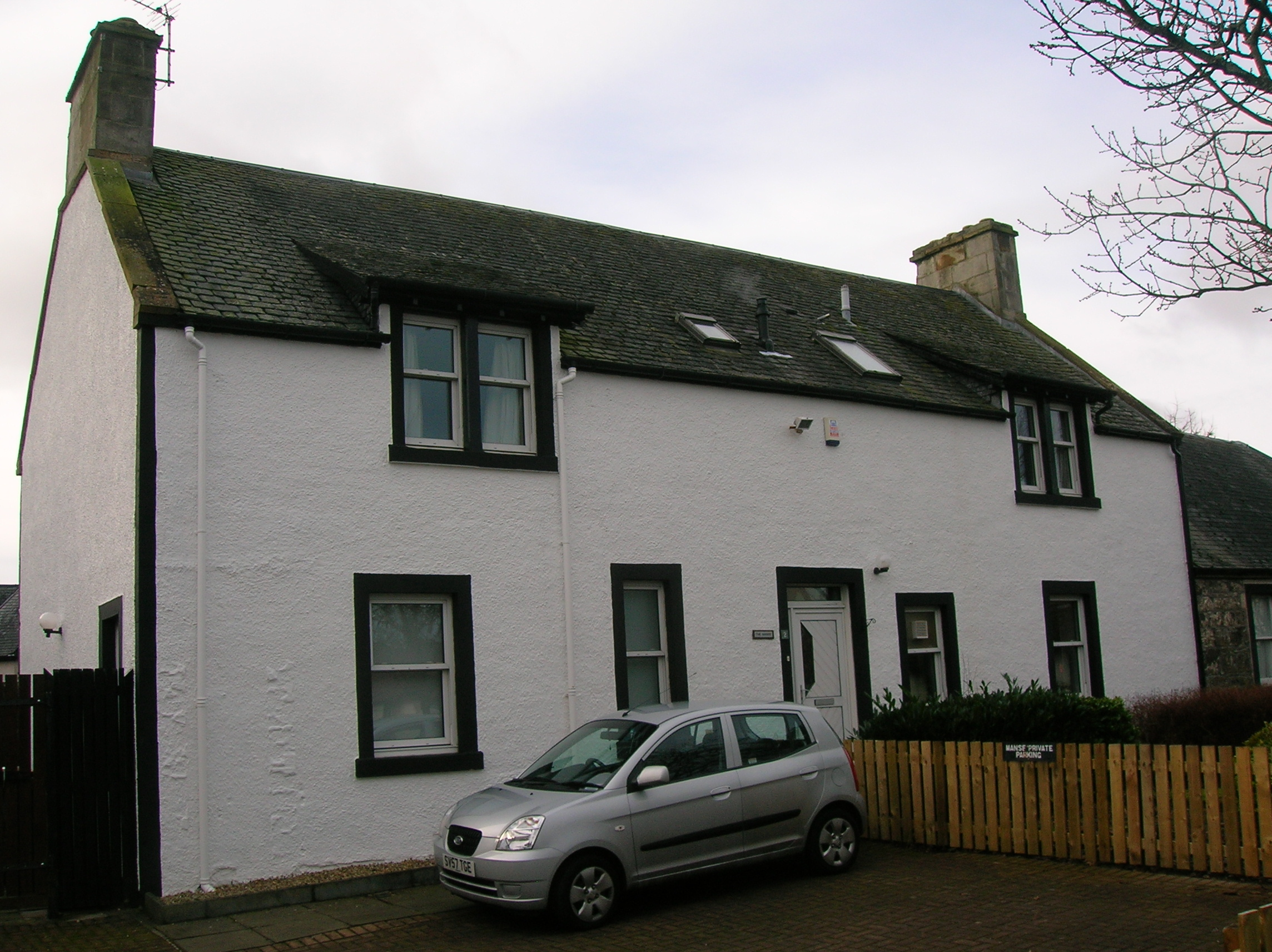 The old farmhouse at Littlestane, now the Girdle Toll Parish church manse. North Ayrshire, Scotland. Littlestane Loch was located nearby before being trained.